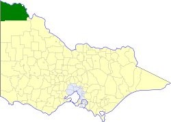 Location of the Shire of Mildura within Victoria.